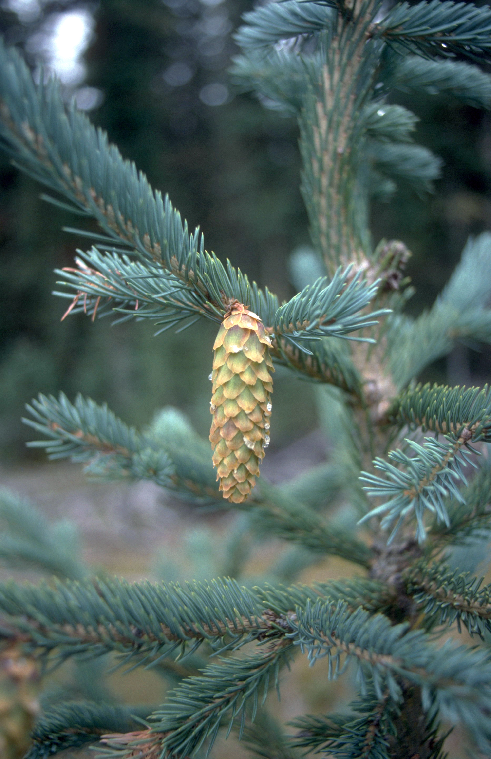 Picea engelmannii foliage and cone. Fraser Experimental Forest, Arapaho-Roosevelt National Forest, north-central Colorado.